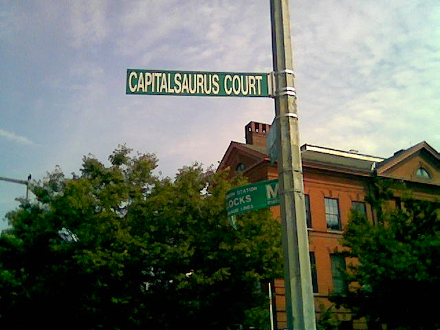 Cameraphone picture taken by Carbondating (Nicholas Clark) at the corner of 1st and F Sts SE (Garfield Park), Washington DC on August 28 2006. Own Work, all rights released (public domain)